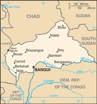 Central African Republic map from CIA World Factbook, converted from original GIF format (July 2011 version showing South Sudan)